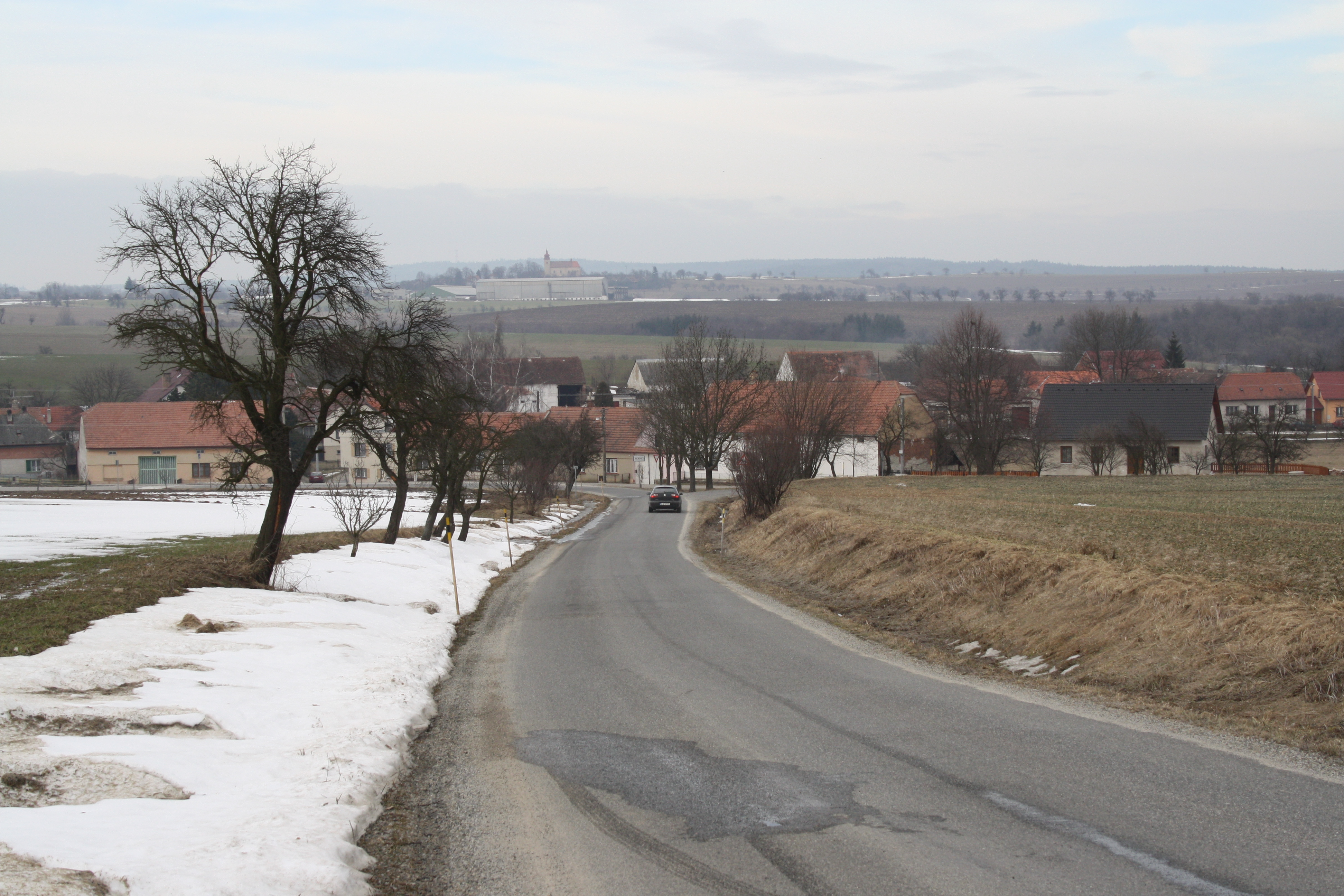 Bolíkovice view from south.